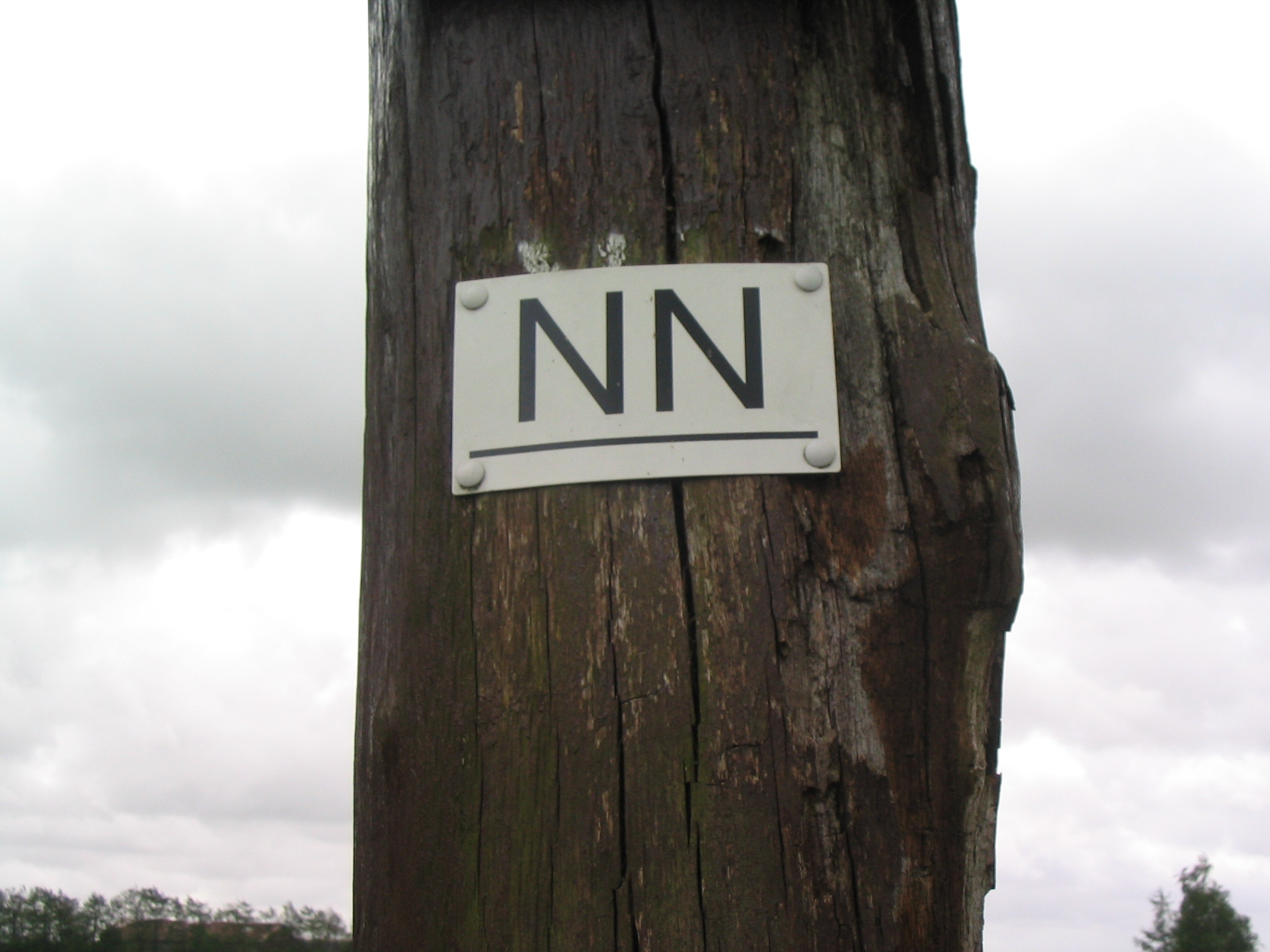 Normalnull (Average sea level) sign at the lowest land point in Germany in the Wilstermarsch